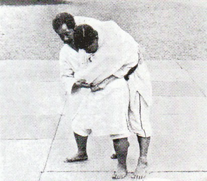 "Uki-goshi" is one of Nage-no-kata, which is a kata in Judo. Left : Kanō Jigorō Right : Yoshitsugu Yamashita